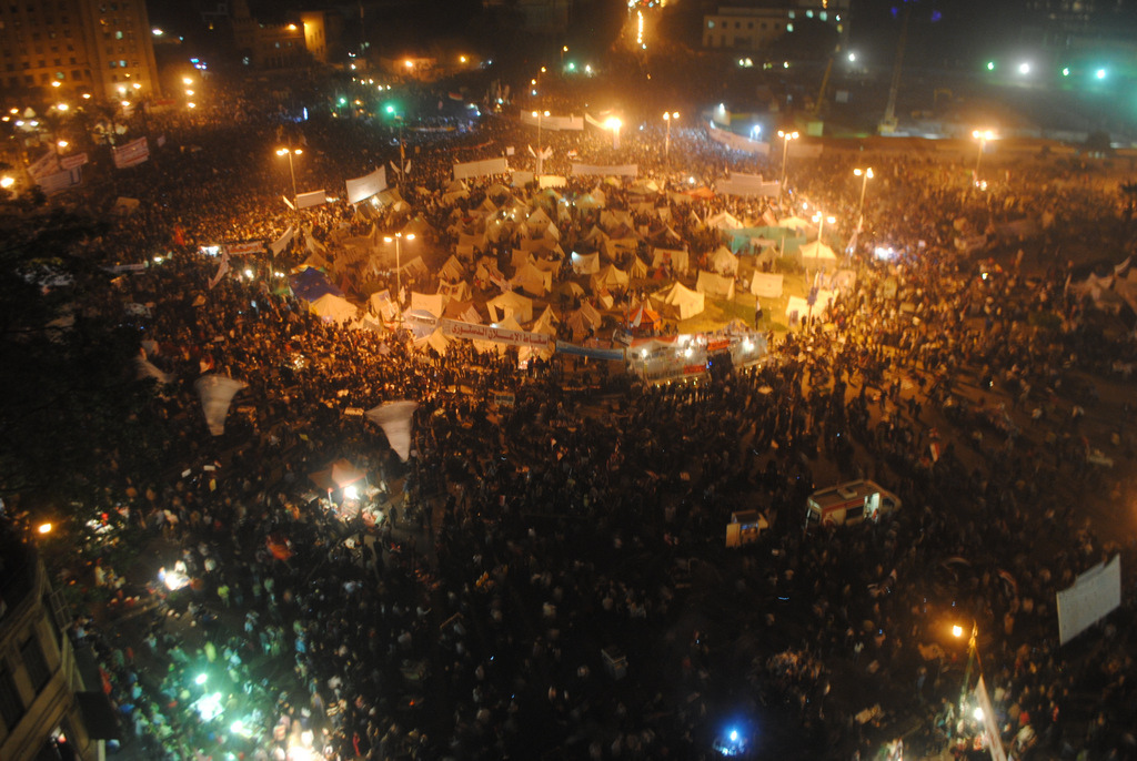 Tahrir At night on Nov 30th